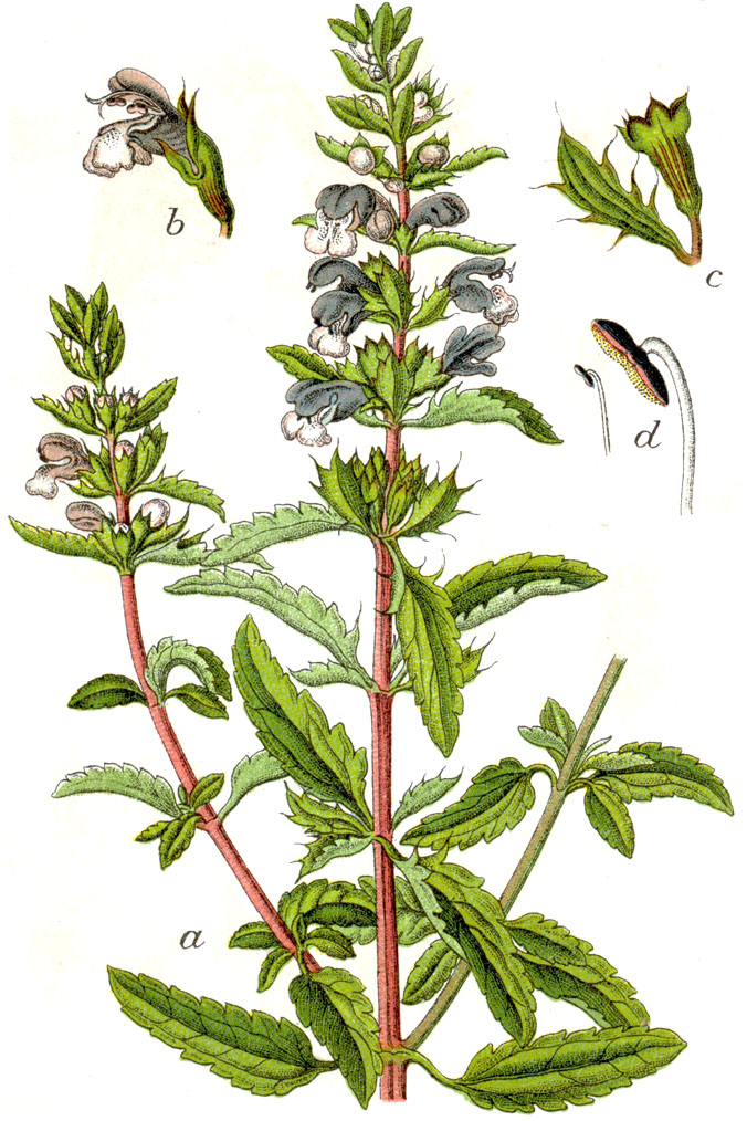 Dracocephalum moldavica L. Original Caption Türkische Melisse, Dracocephalum moldavica